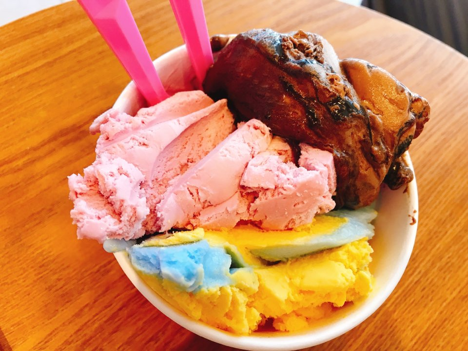 BaskinRobbins Icecream